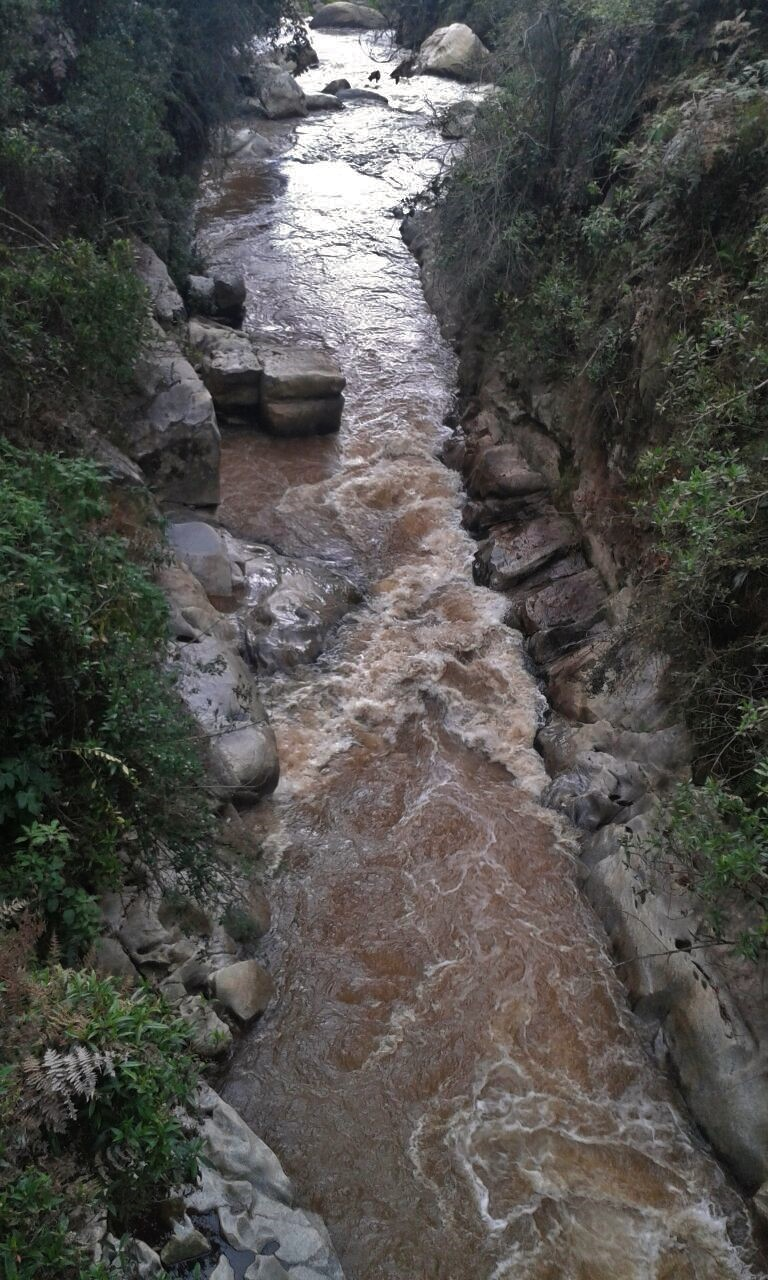 Río Grande por Santa Rosa de Osos y Entrerríos